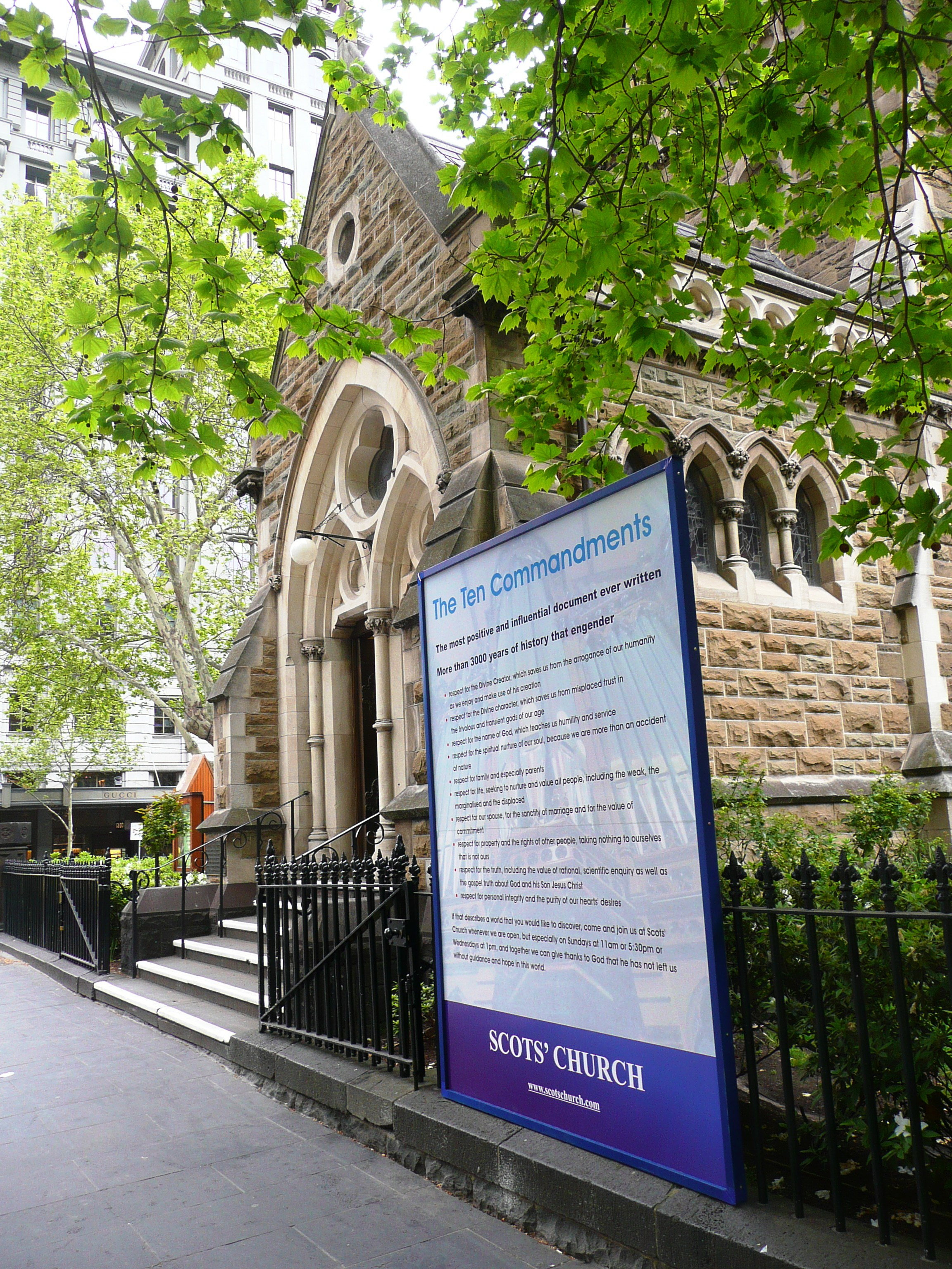 A poster published by the Session of Scots' Church, Melbourne in response to a publicity campaign against the 10 Commandments and announcing a 'new religion' by St. Michael's Uniting Church and Dr Fancis Macnab. The poster faces towards St. Michael's which is directly across Russell Street from Scots'. The text reads: The Ten Commandments: the most positive and influential document ever written More than 3000 years of history that engender and promote... respect for the Divine Creator, which saves us from the arrogance of our humanity as we enjoy and make use of his creation respect for the Divine character, which saves us from misplaced trust in the frivolous and transient gods of our age respect for the name of God, which teaches us humility and service respect for the spiritual nurture of our soul, because we are more than an accident of nature respect for family and especially parents respect for life, seeking to nurture and value all people, including the weak, the marginalised and the displaced respect for our spouse, for the sanctity of marriage and for the value of commitment respect for property and the rights of other people, taking nothing to ourselves that is not ours respect for the truth, including the value of rational, scientific enquiry as well as the gospel truth about God and his Son Jesus Christ respect for personal integrity and the purity of our hearts’ desires [1]